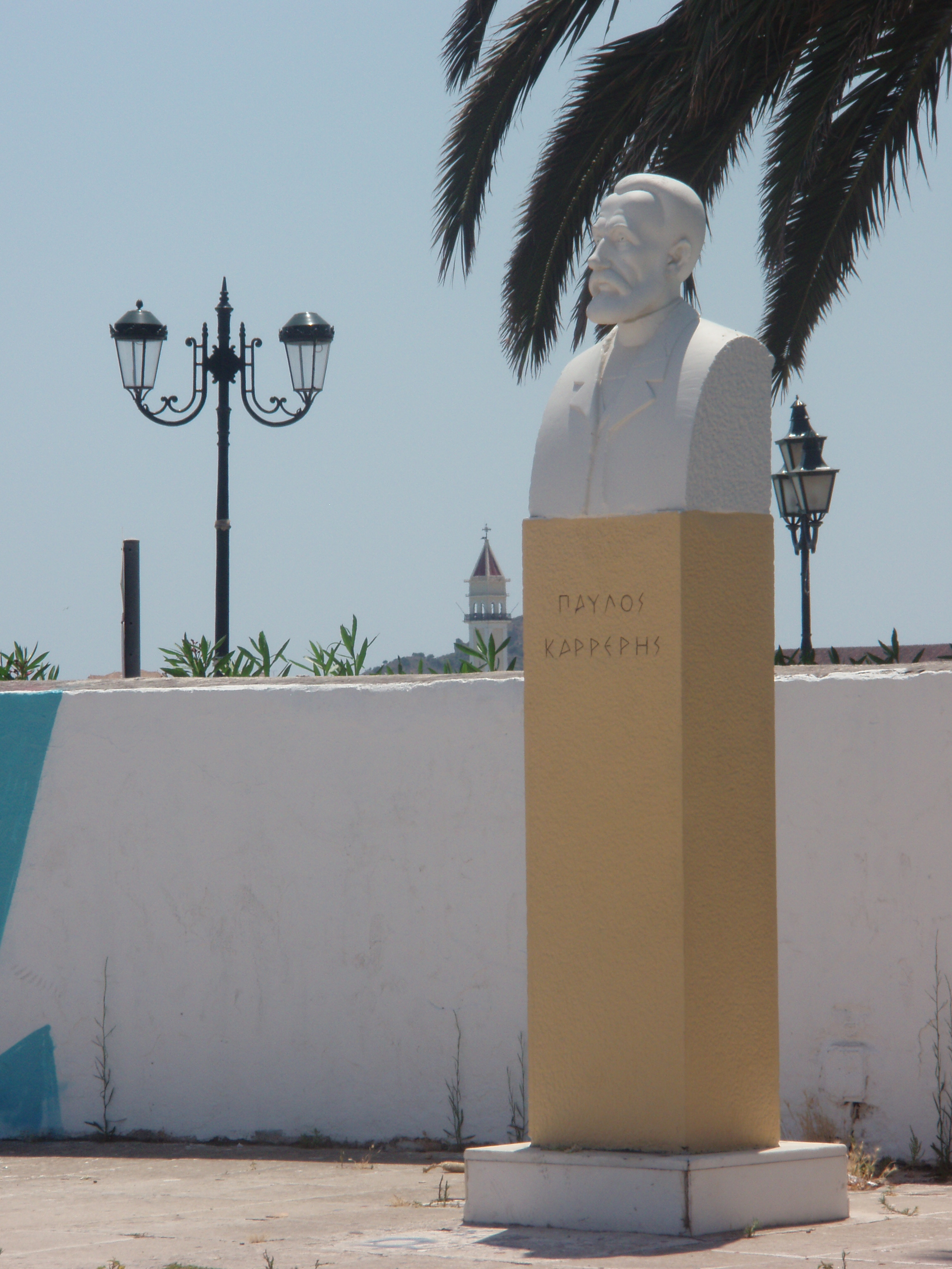 Statue of Greek composer Pavlos Carrer (Pavlos Karreris), Dionysios Solomos Square (Platia Dionysiou Solomou), Zakynthos (City), Greece.